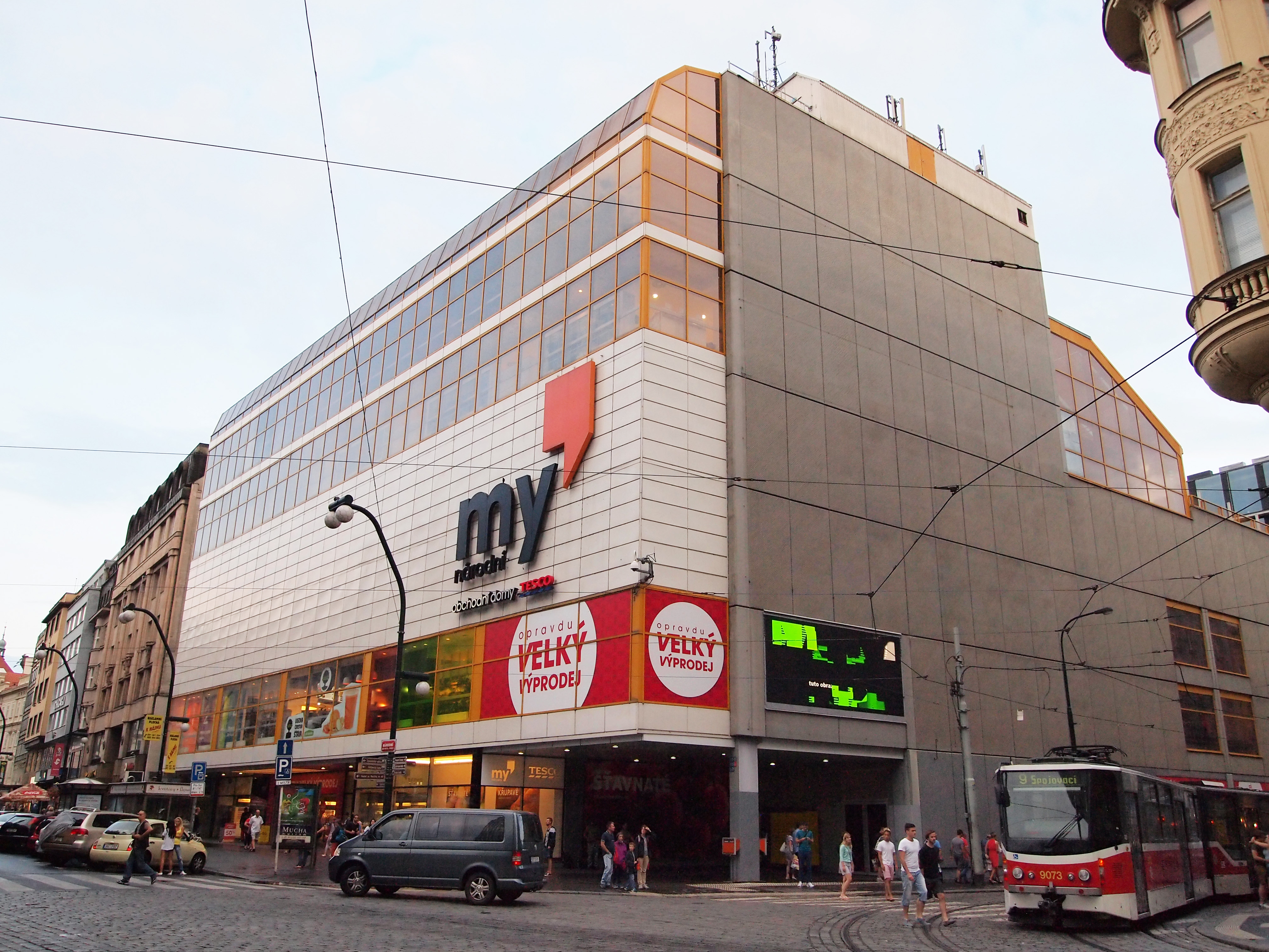 My Národní in Prague. This photograph was taken with an Olympus E-PL1